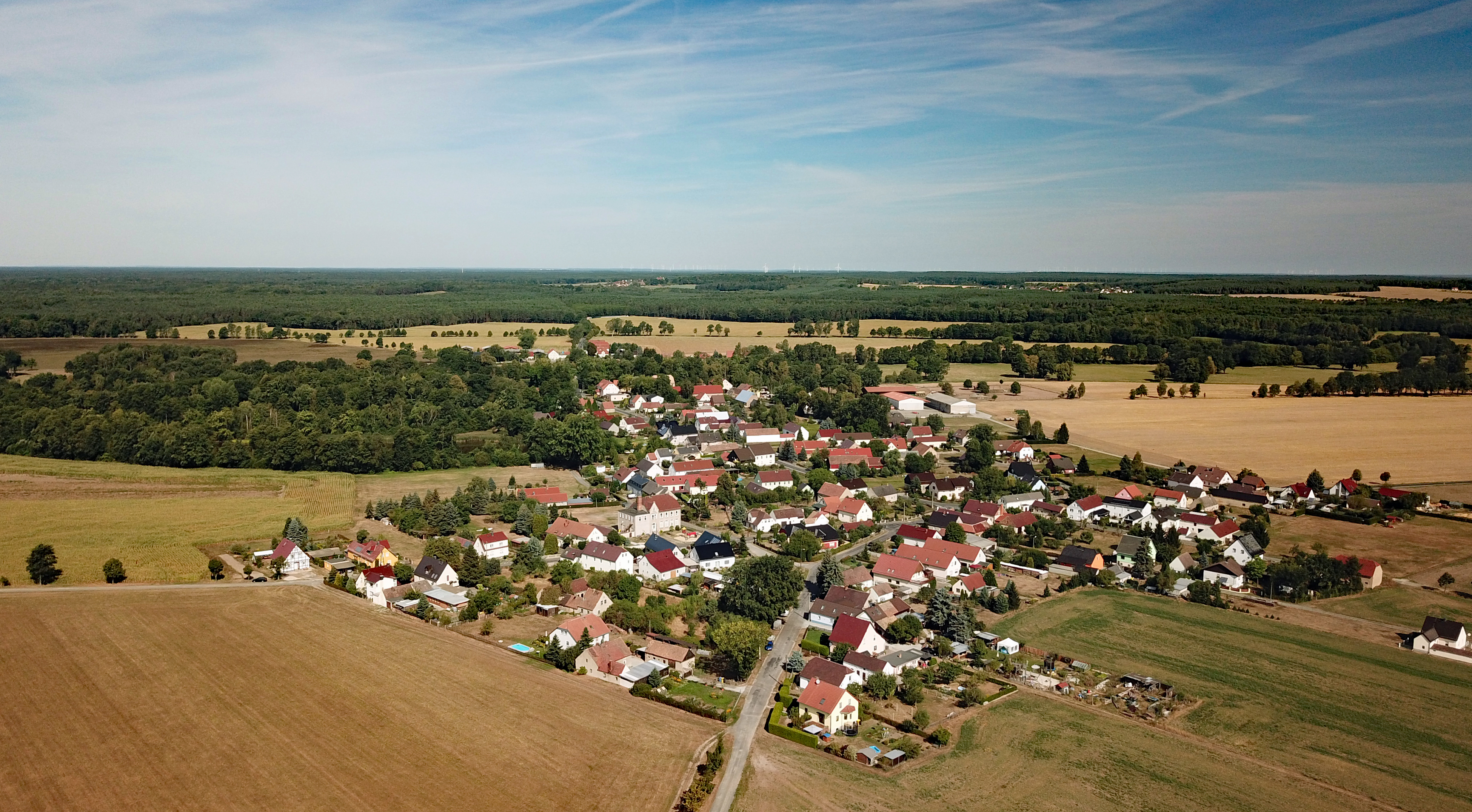 Milstrich (Oßling, Saxony, Germany) Hornjoserbsce: Powětrowy wobraz Jitra